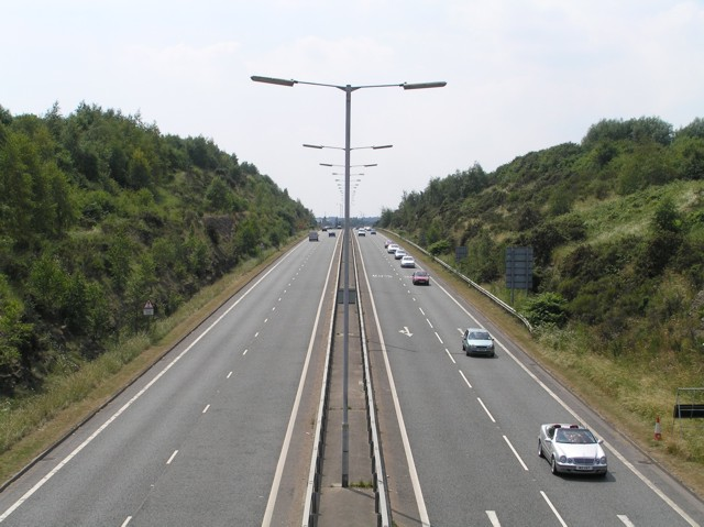 View towards Mosborough. From the footbridge over the A57, looking SW towards Mosborough. I particularly liked the fact that I could get in the middle of the road and line all the street lights up behind each other! The footbridge forms part of the TPT and once over the bridge, follows the road up on the right atop the cutting.